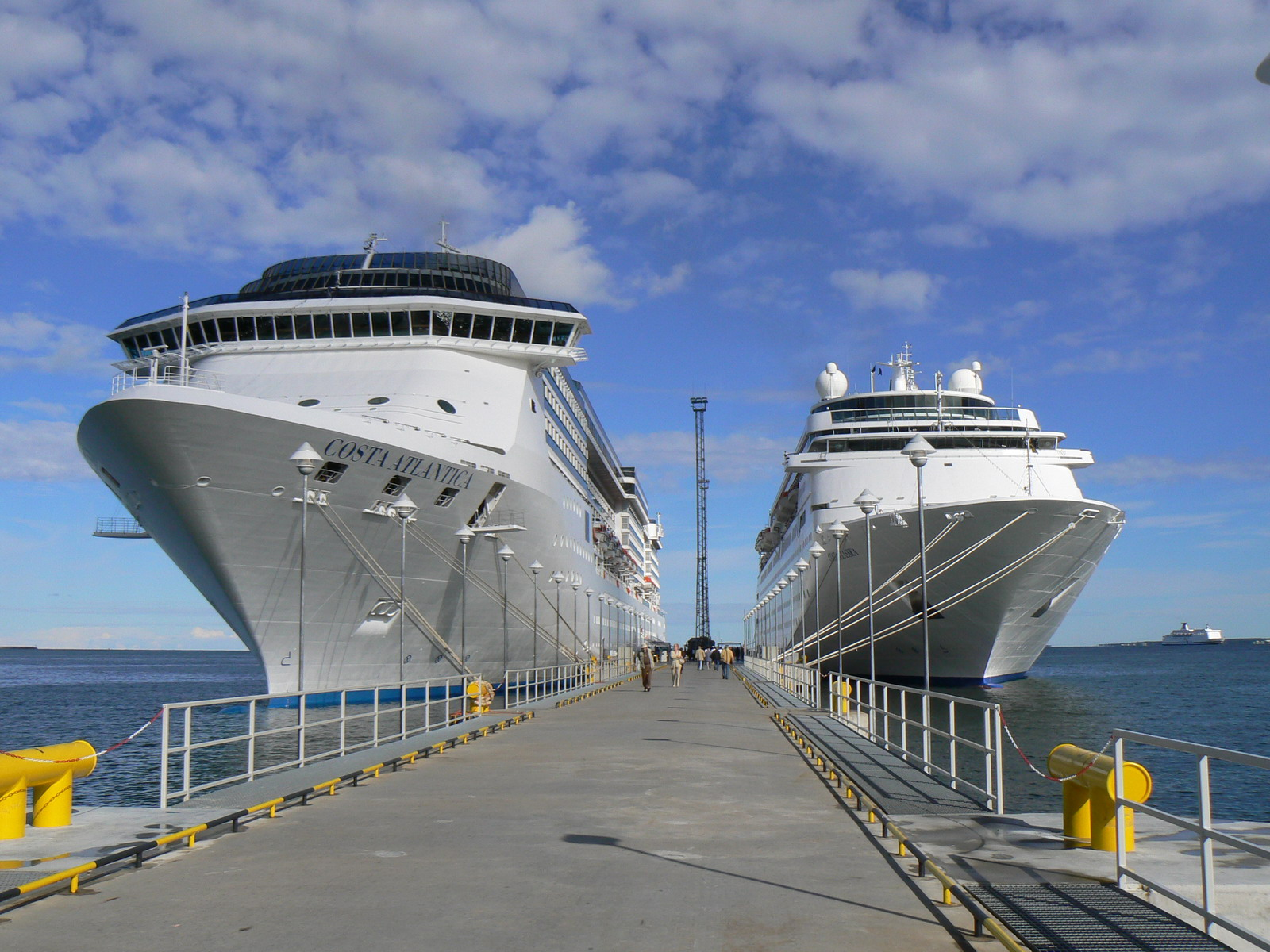 The beautifoul ship of Costa Crociere at port of Tallinn (Estonia); Costa Atlantica and Costa Classica (ferry Nordlandia in the background) Costa Atlantica IMO Number: 9187796 MMSI Number: 247645000 Callsign: IBLQ Length: 292 m Beam: 34 m Costa Classica IMO Number: 8716502 MMSI Number: 247819000 Callsign: ICIC Length: 220 m Beam: 30 m